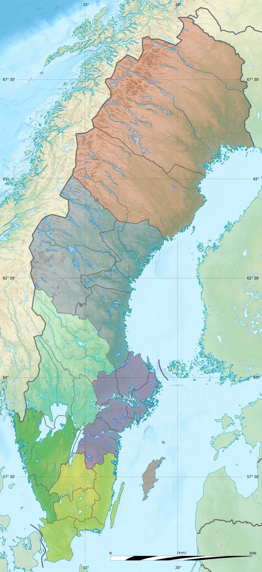 Swedish Military Areas 1989